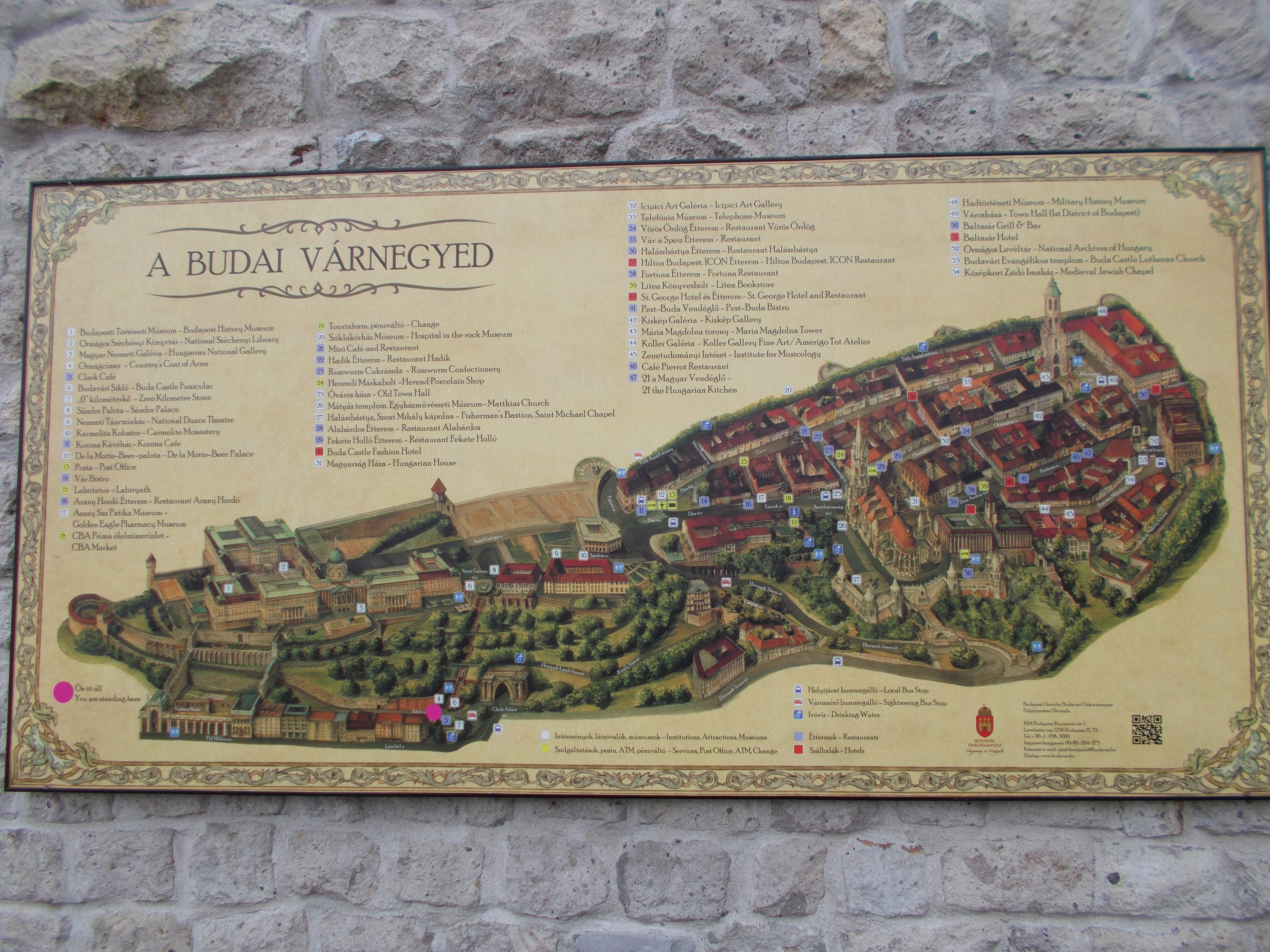 Budapest, Clark Adam square, Castle Info Map